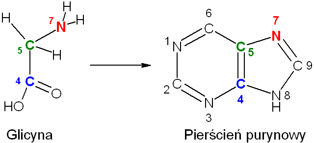 Scheme showing how glycine contributes to the purine structure; description on image in Polish